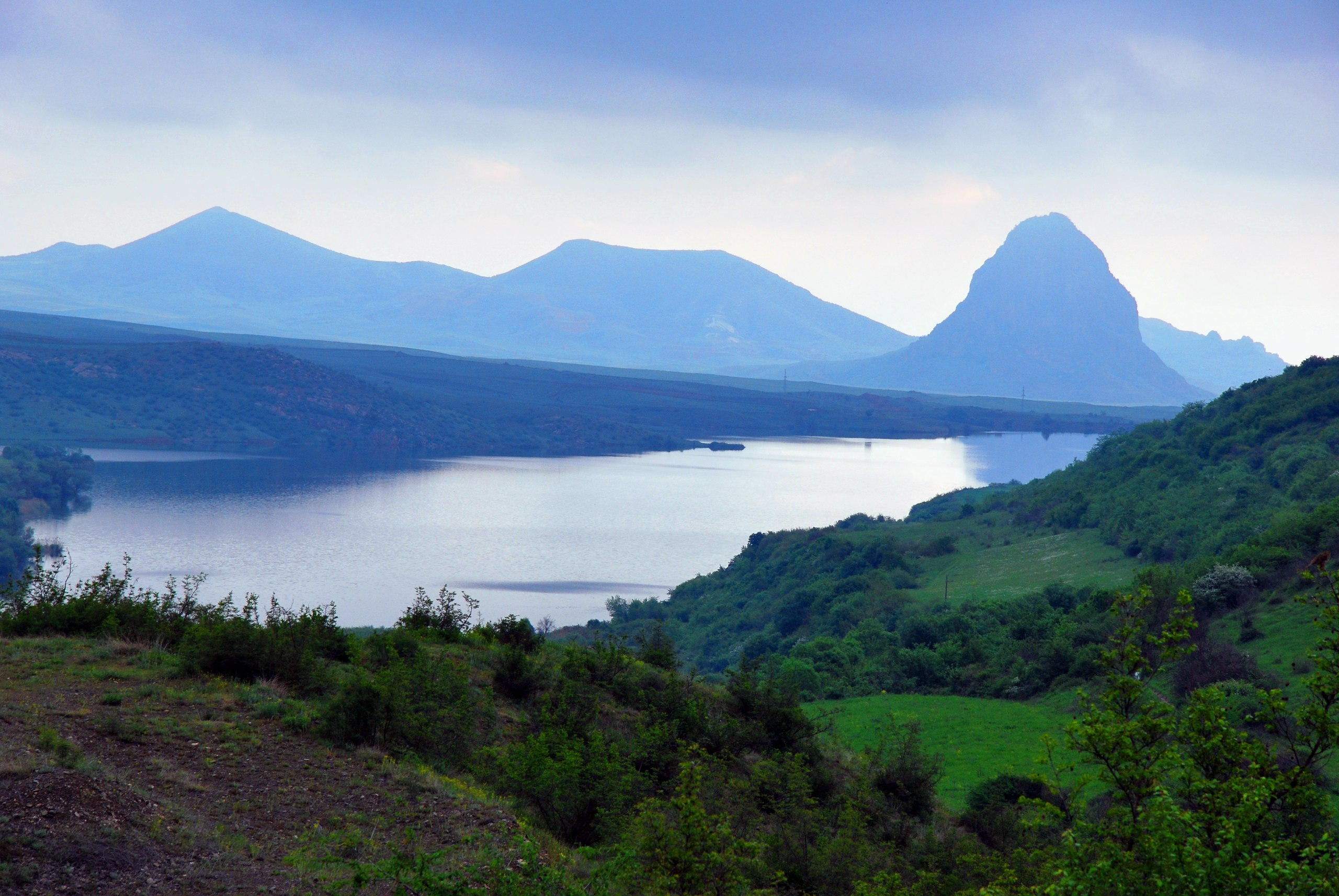 Noyemberyan